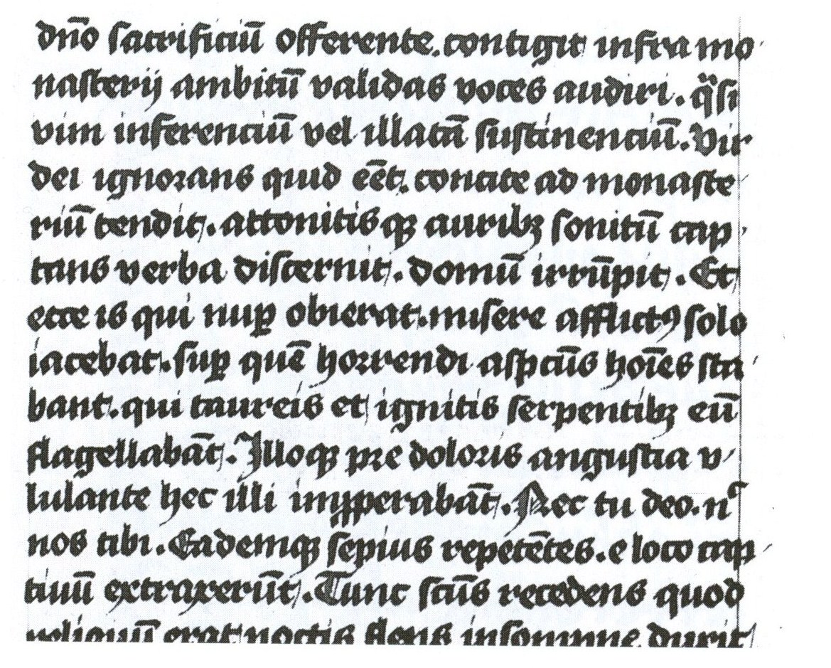 Vincent of Beauvais, Speculum historiale. Script: Loopless Bastarda. Utrecht, University Library, Ms. 738, Volume 4, fol. 38r.